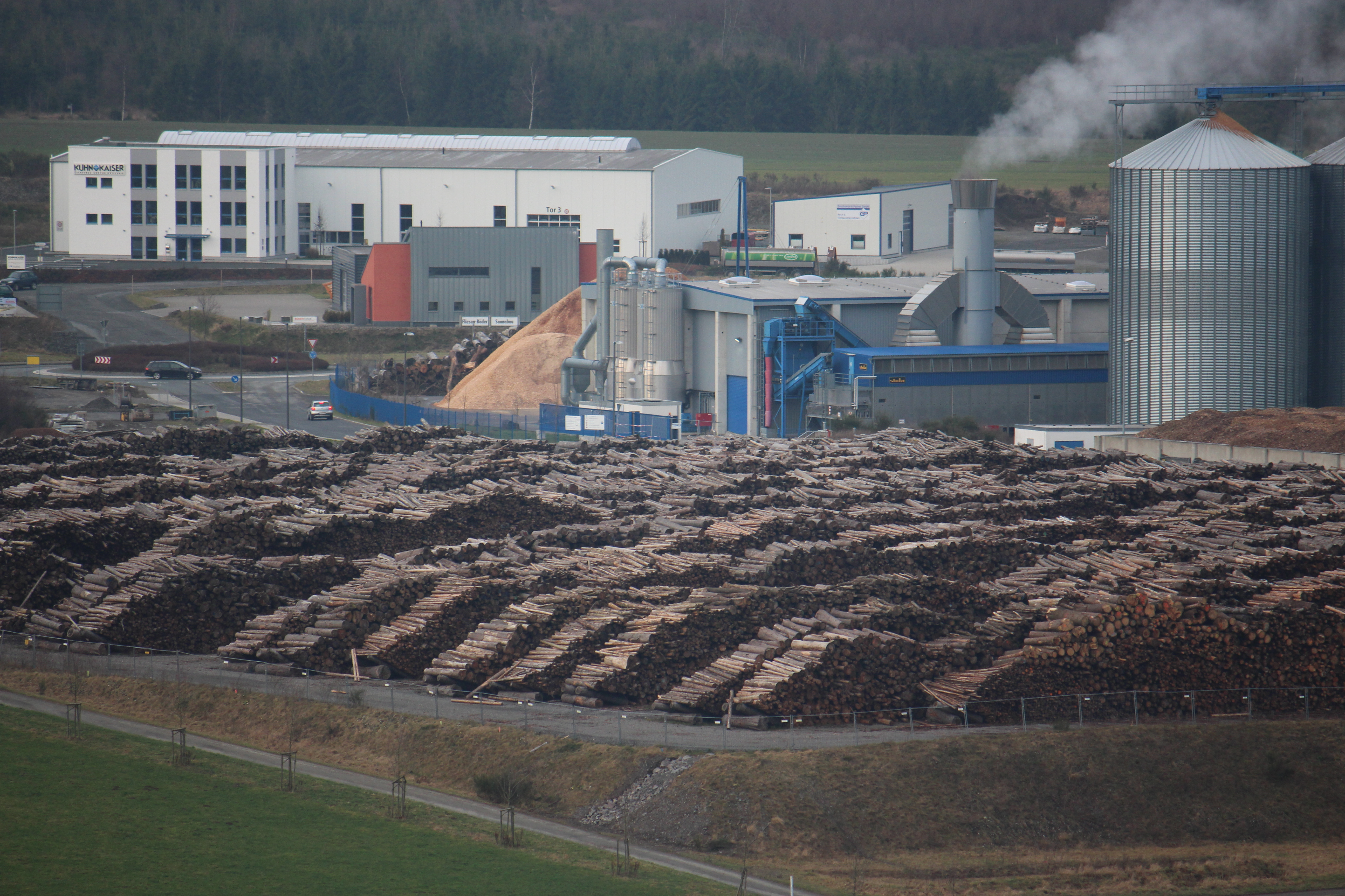 Biomass-fired power plant Wittgenstein, Germany.